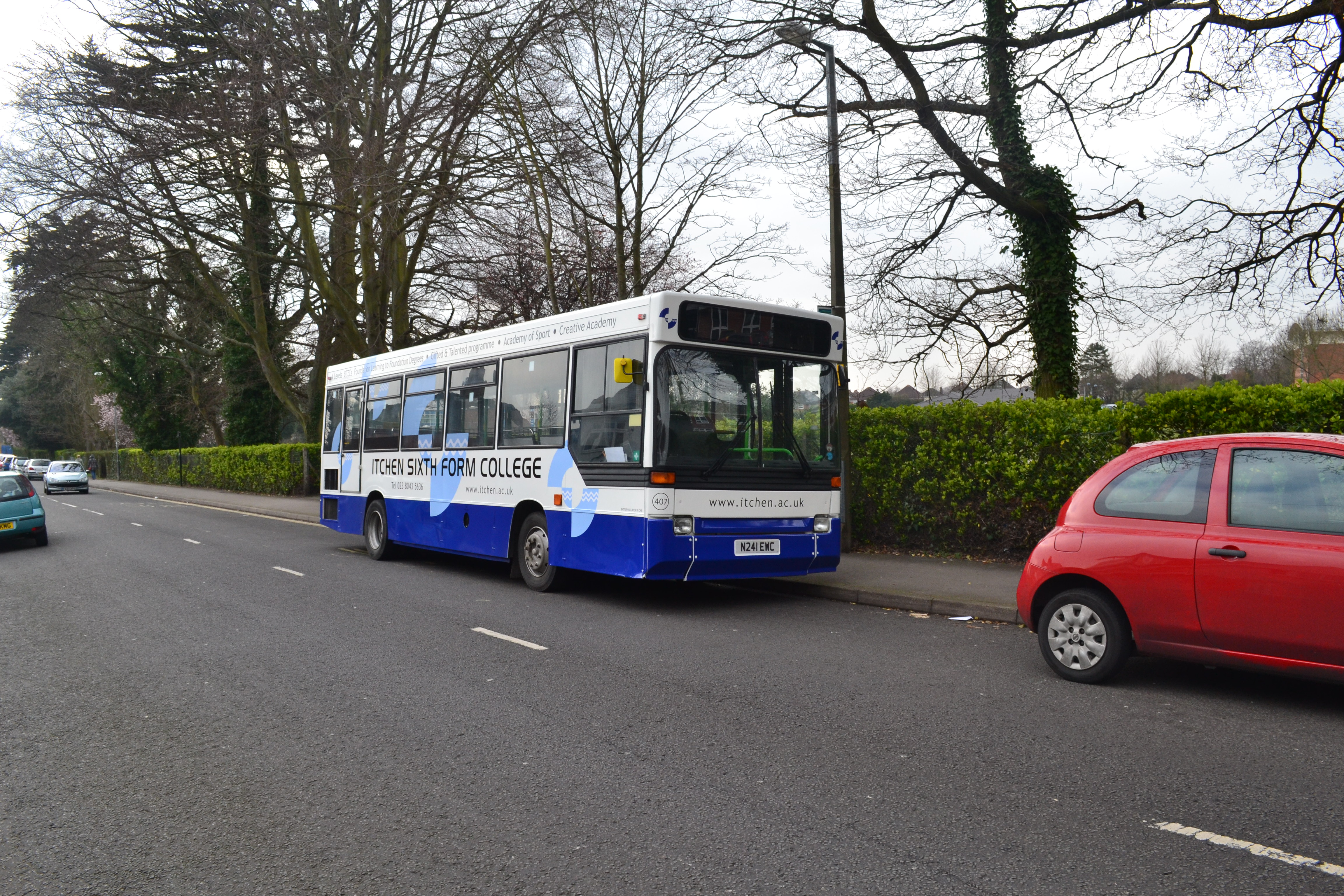 Single decker college bus